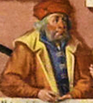 Mestwin II of Pomerelia